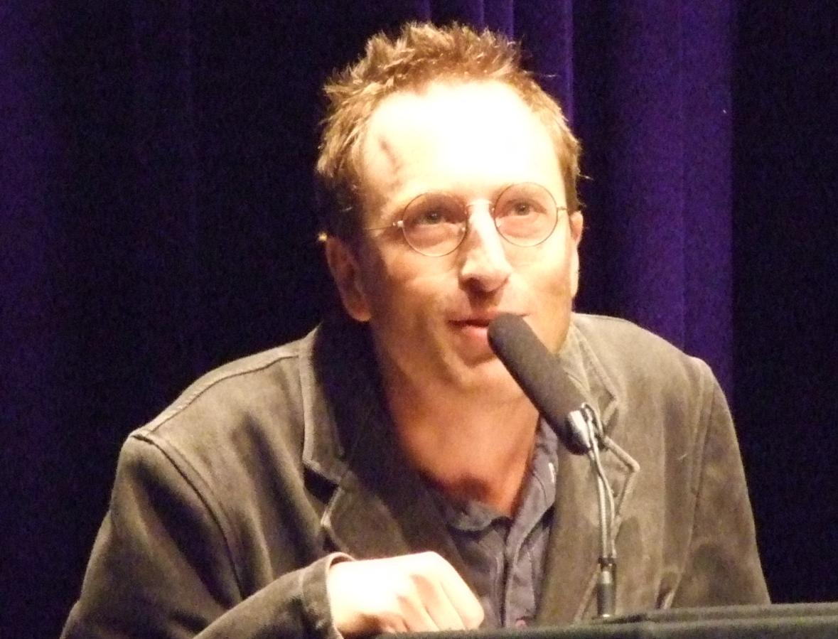 Jon Ronson speaking at TAM London October 2009